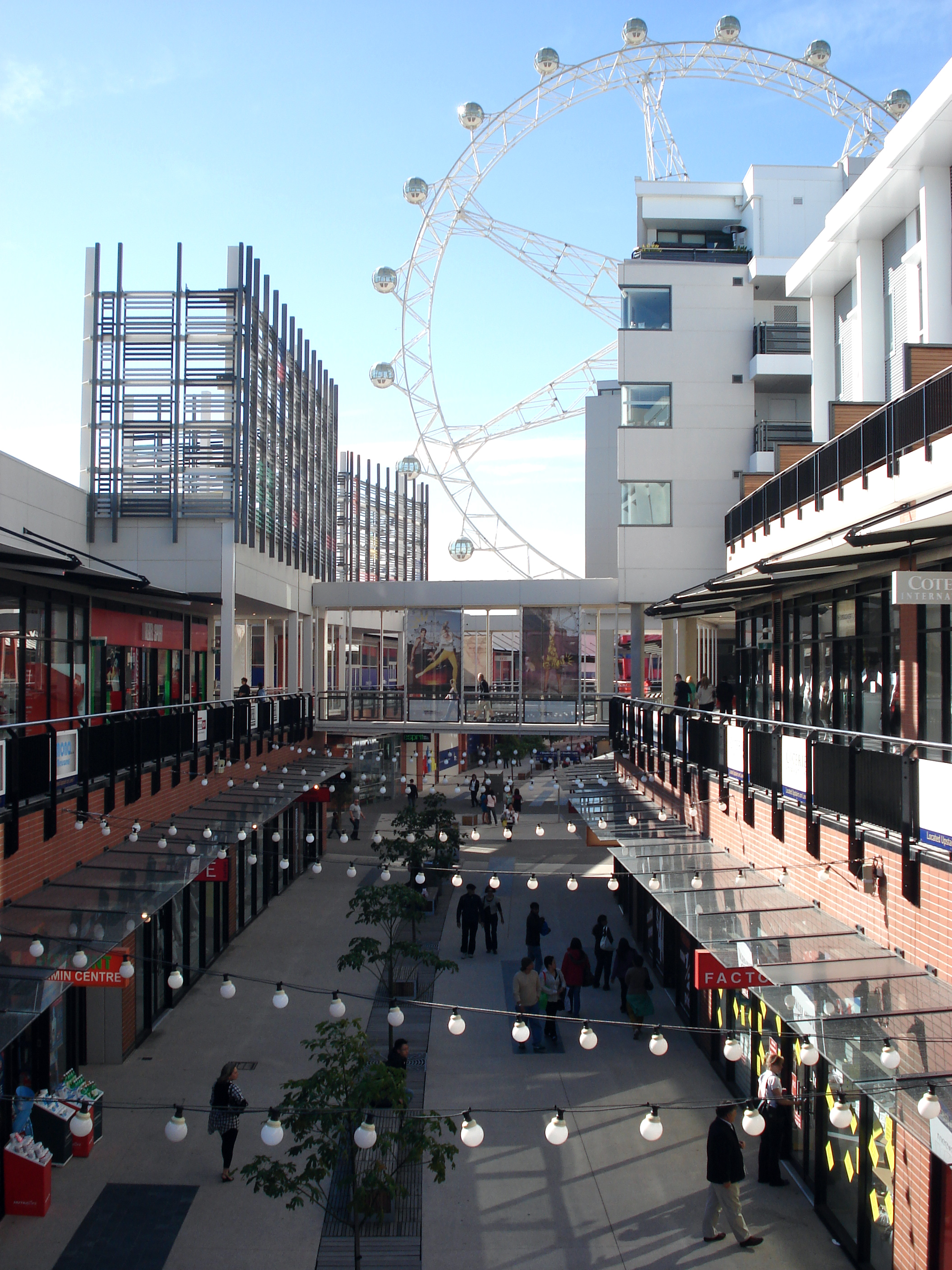 The Harbour Town precinct in the Melbourne Docklands looking north towards the Southern Star Observational Wheel.